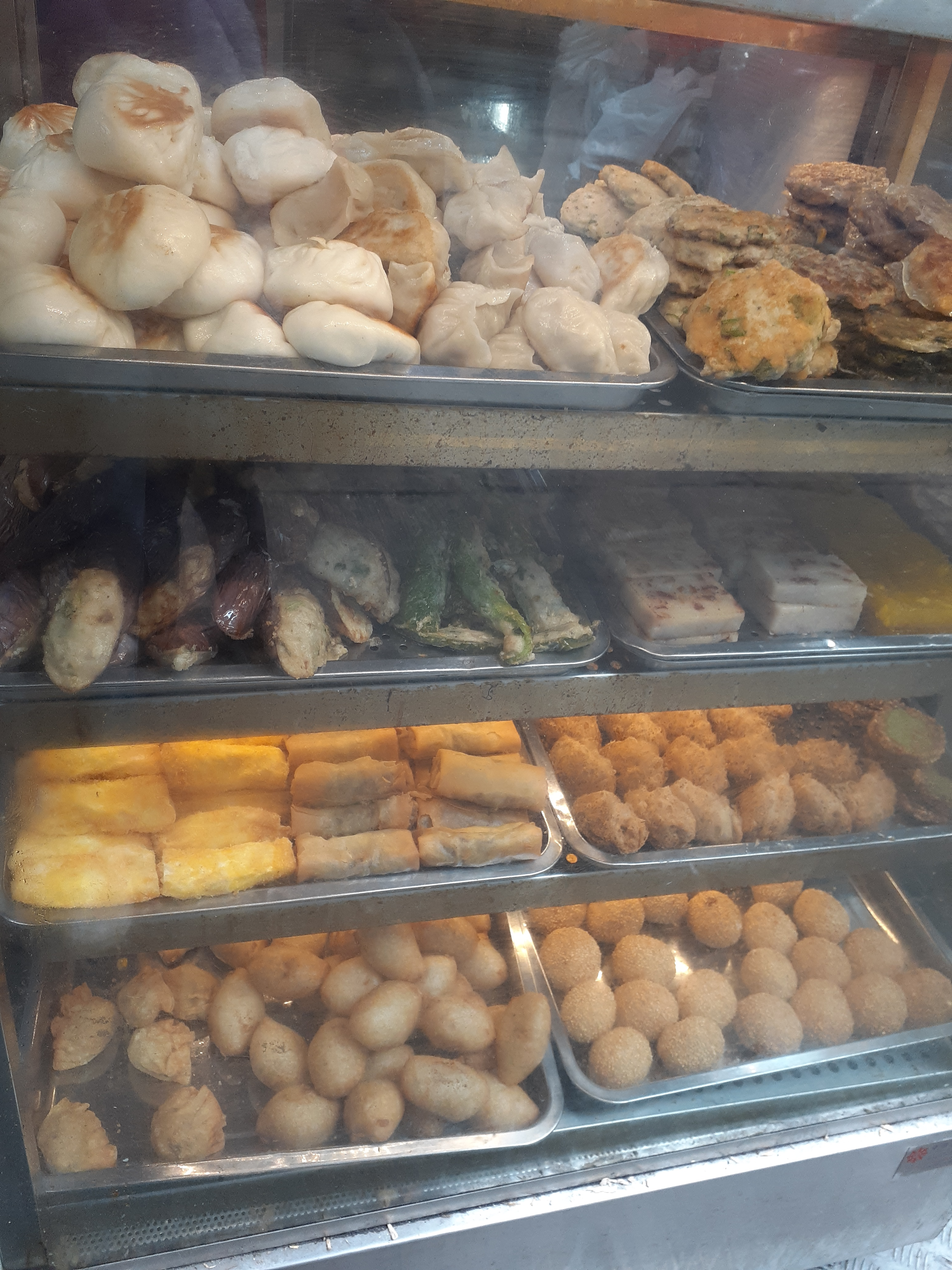 HK SYP 西環 Sai Ying Pun 正街 Centre Street 25th in March 2020